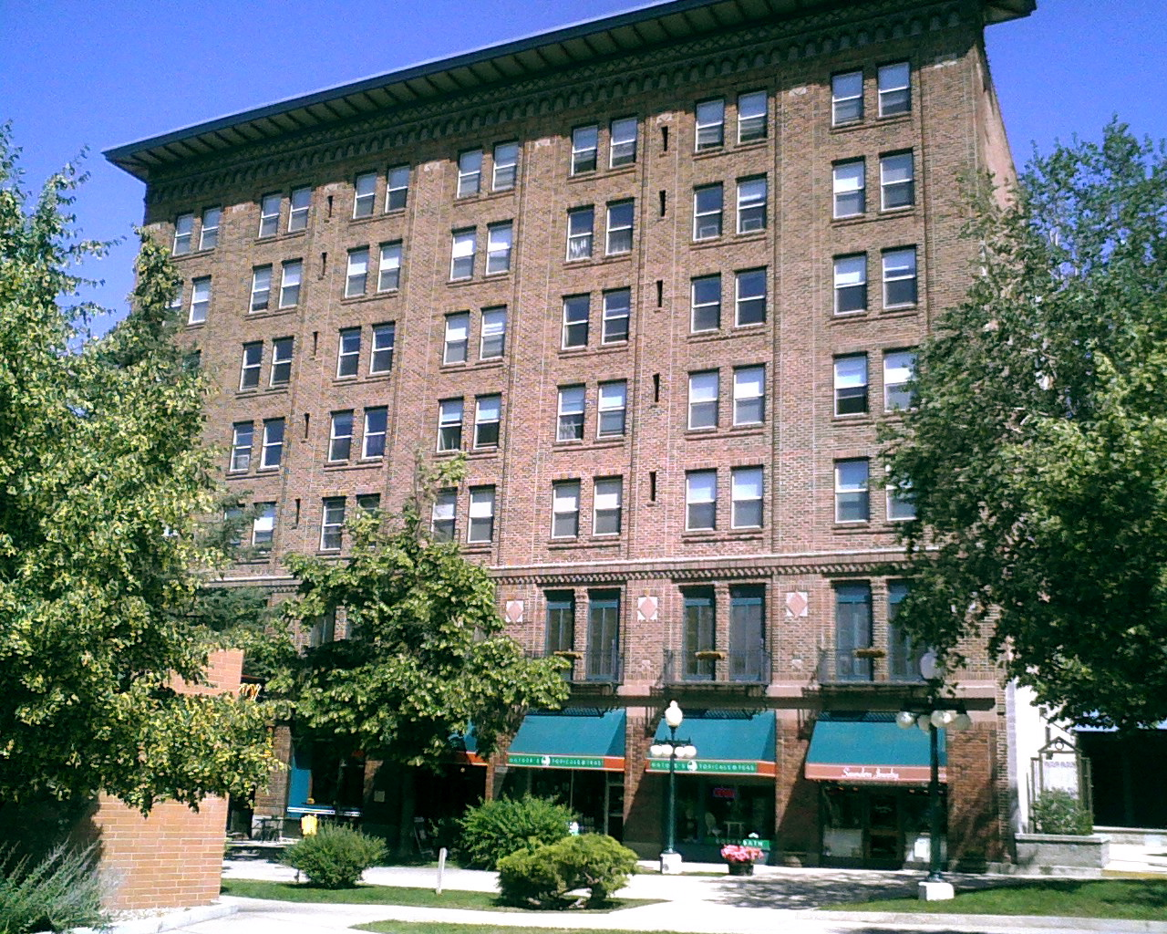 Placer Hotel (15-27 North Last Chance Gulch) Helena, MT. Building on National Register of Historic Places